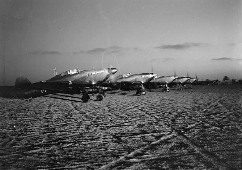 Hawker Hurricane Mark Is (W9291 ‘M’ nearest) of 'B' Flight, No. 30 Squadron RAF, running up their engines in the dusk at Idku, Egypt, while operating in the night fighter role for the air defence of Alexandria.